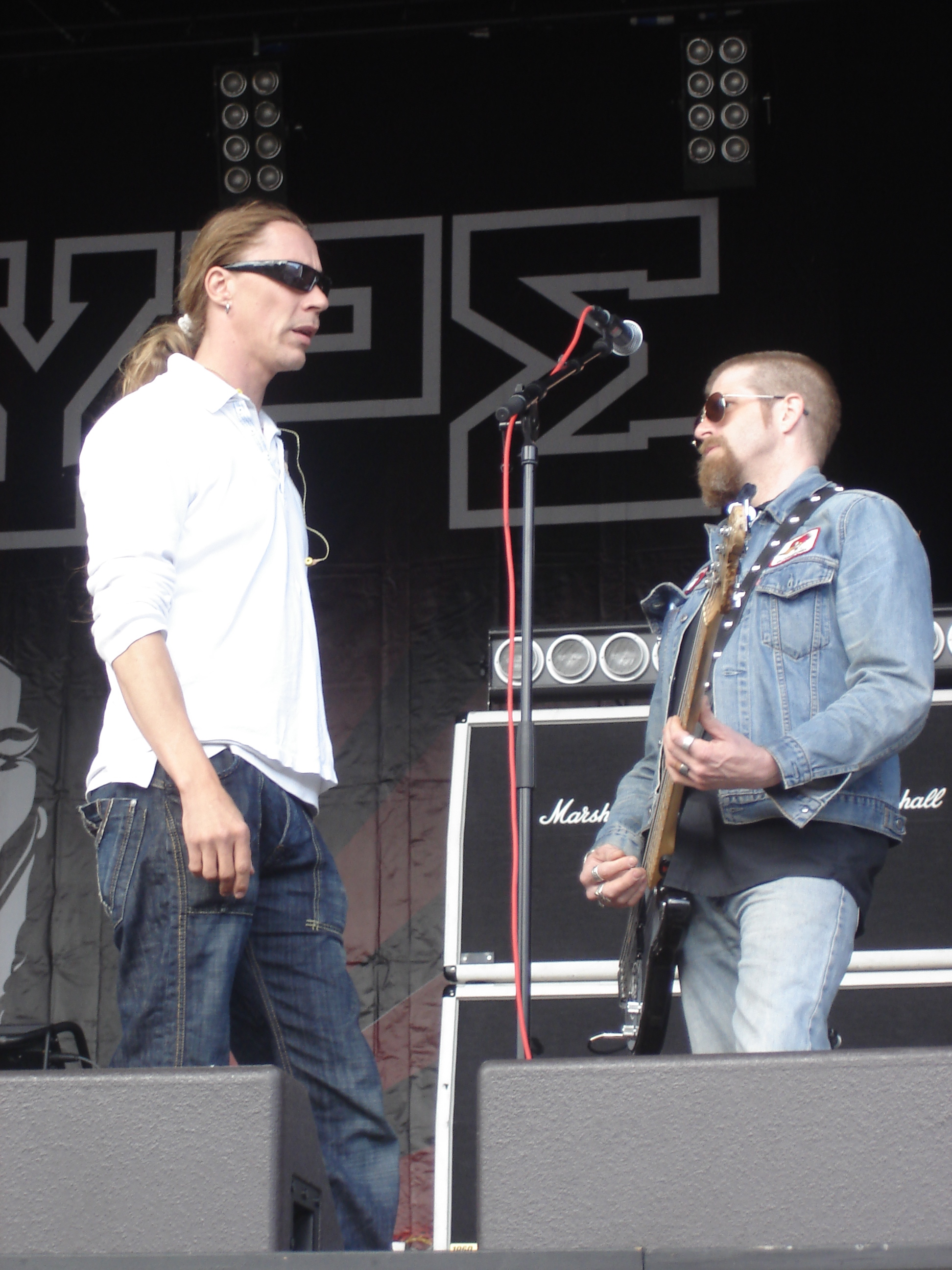 E-type during soundcheck before a concert on Liseberg in Gothenburg